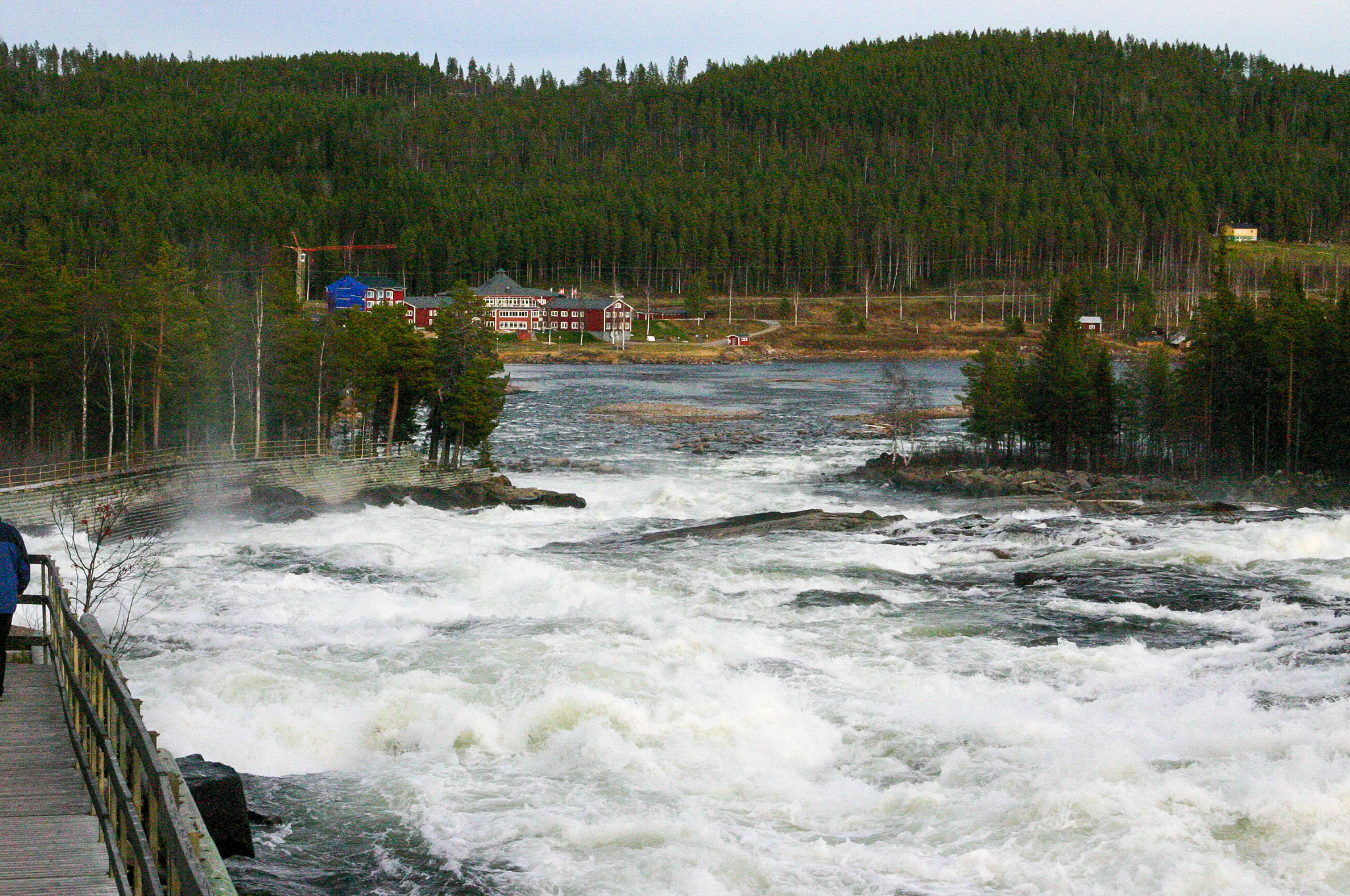 Description: Storforsen rapids near Vidsel, Älvsbyn kommun, Norrbotten, Sweden. source: created on 17.10.2005 by Stephan Herz with Canon EOS 300D